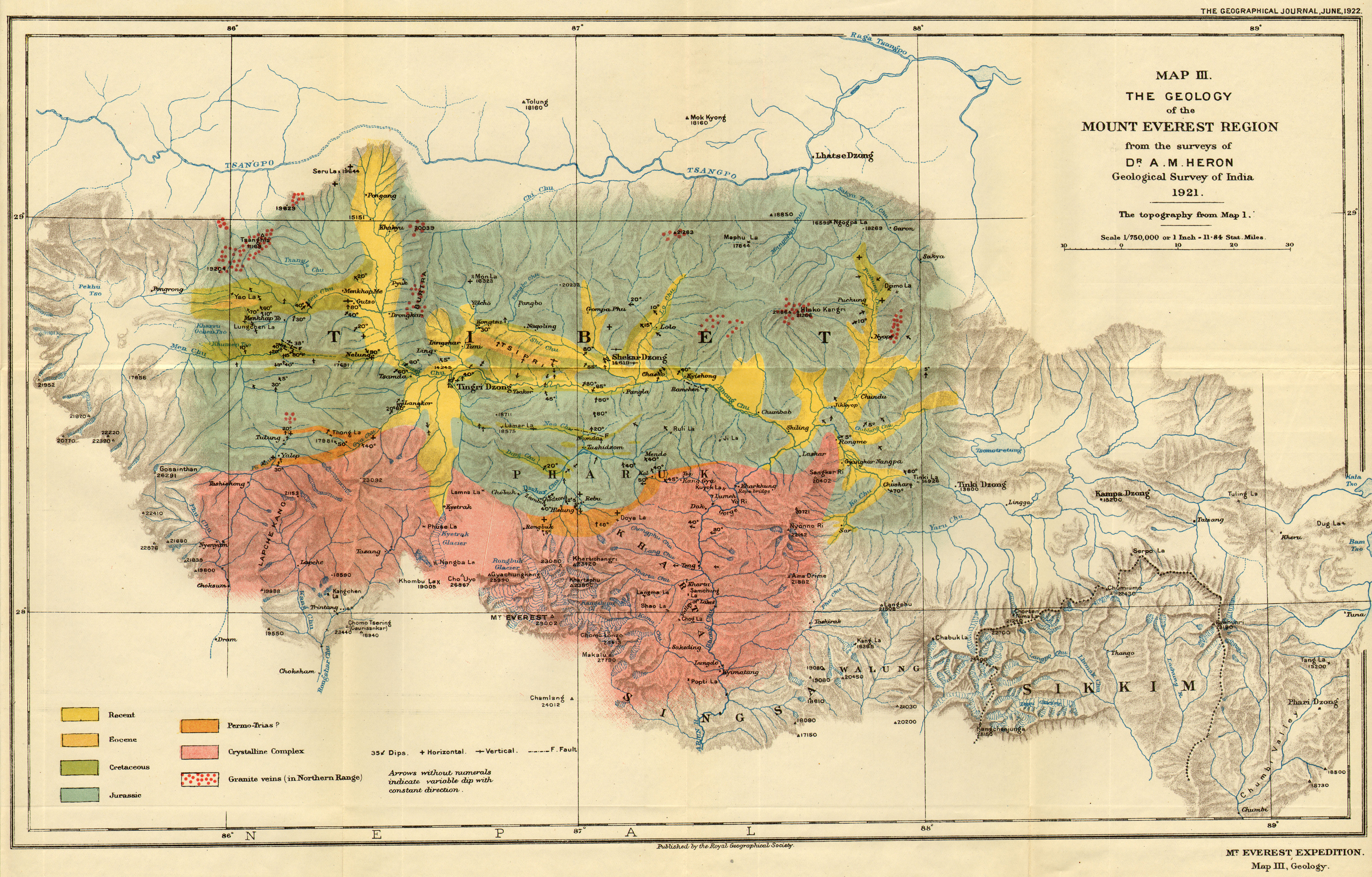 Map III from Howard-Bury, C. K. (1922). Mount Everest the Reconnaissance, 1921 (1 ed.). New York, Longman & Green